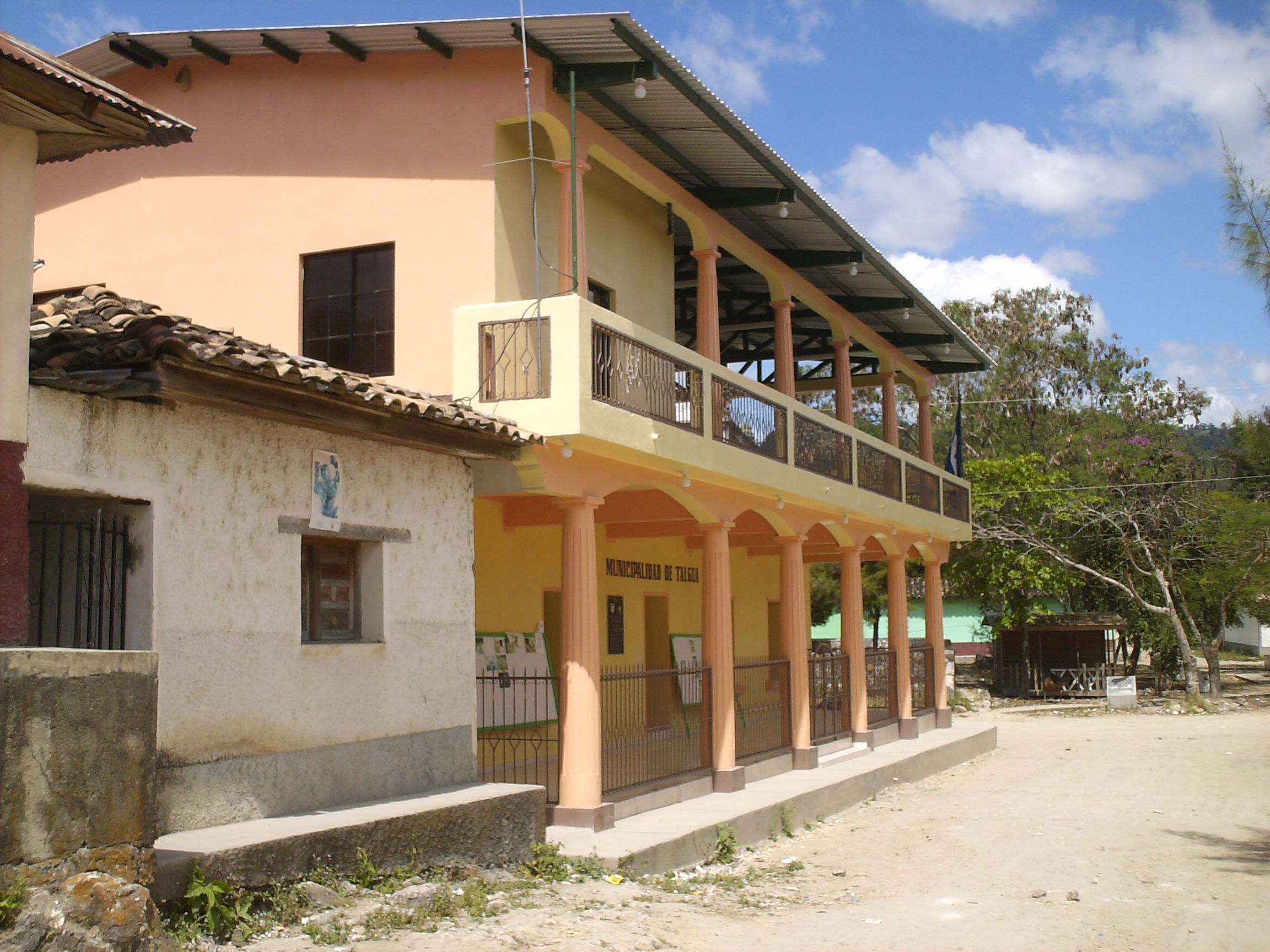 Talgua, municipality in the Honduran department of Lempira.